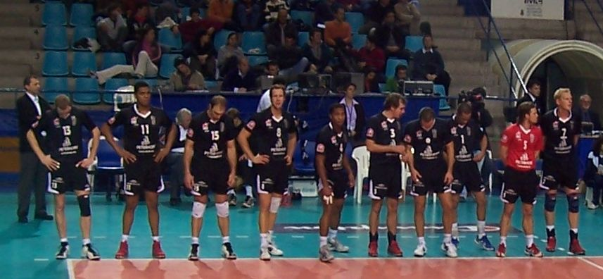 the German volleyball team evivo Düren at the Champions League match in Palma de Mallorca